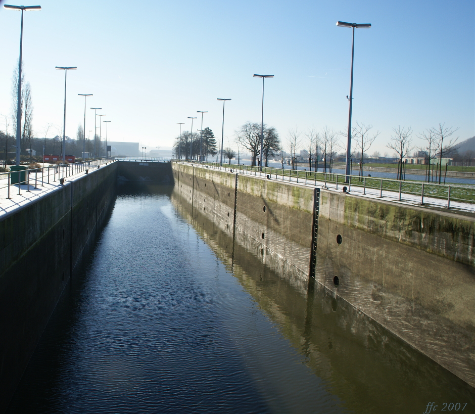 the Lock on the Canal de Monsin in Liège, Belgium